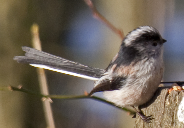 Long-tailed Tit Aegithalos caudatus, West Bromwich, England